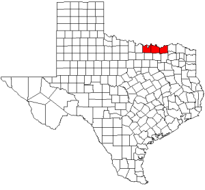 Map of Texas highlighting counties served by the Texoma Council of Governments; created by User:Acntx.